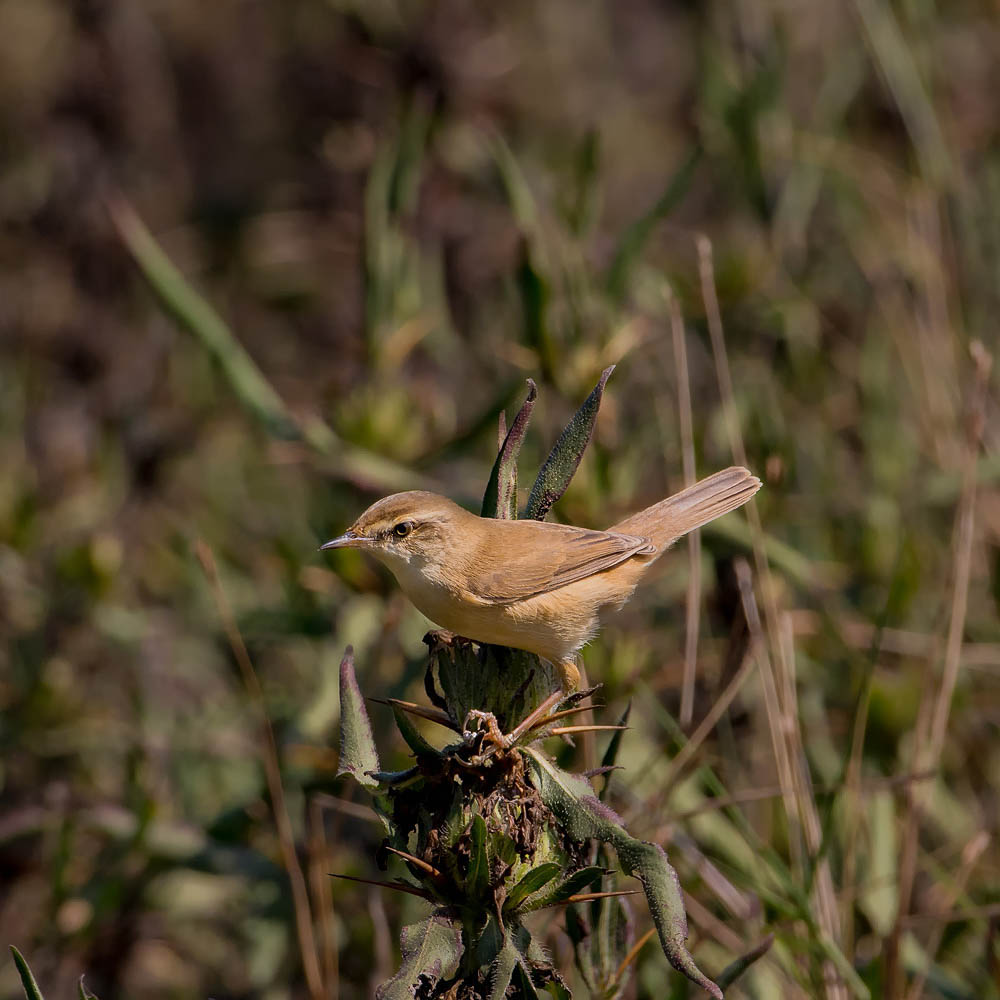 Taken in Kenjar Mangalore-Karnataka- India